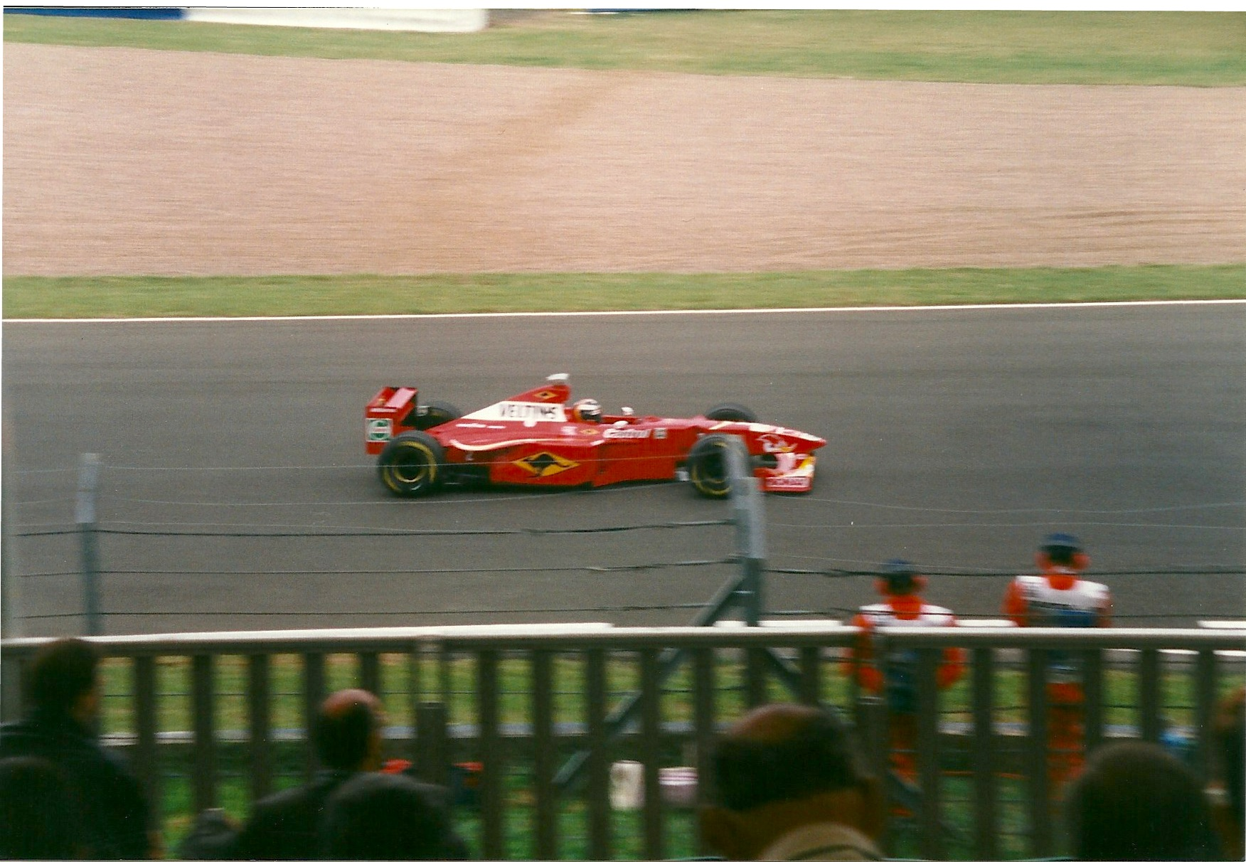 British Grand Prix 1998